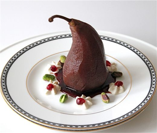 Pomegranate Poached Pear